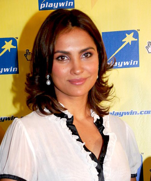 Lara Dutta at playwin lottery meet